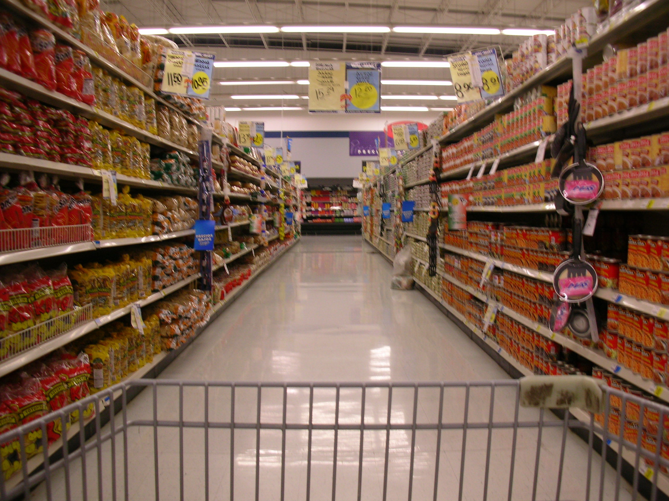 Interior of a Wal-Mart in Hermosillo